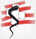 Internacional Catastrophe Paramedic Icon